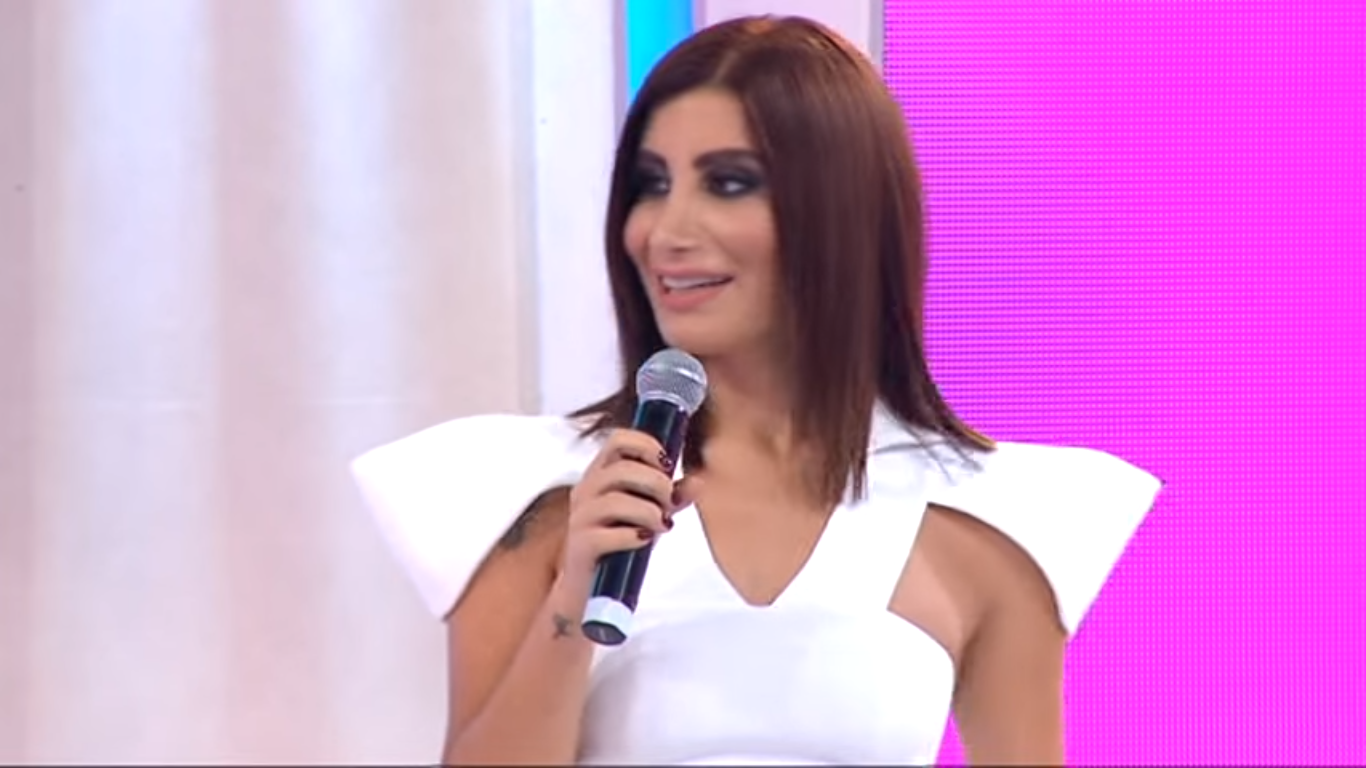 Turkish singer İrem Derici during a TV-show called İşte Benim Stilim.